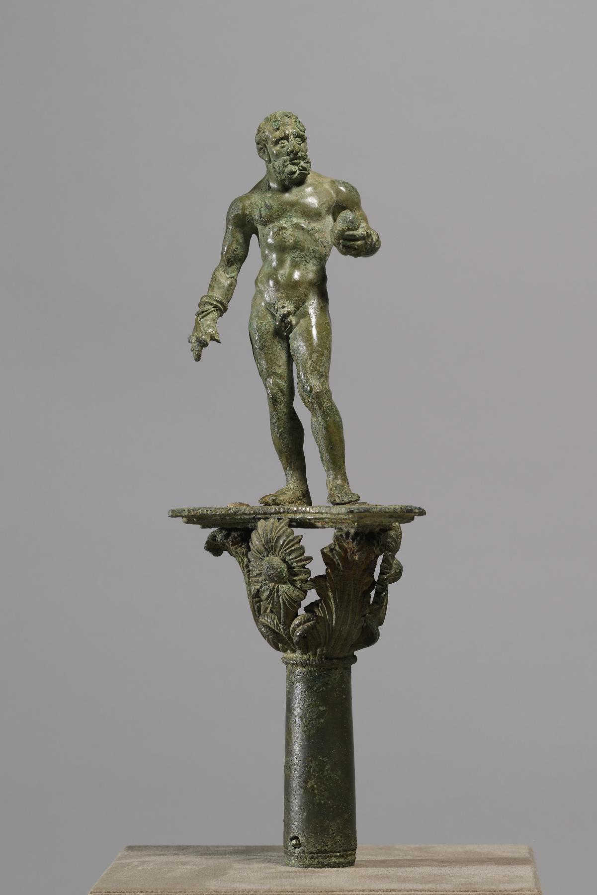 This exquisitely modeled boxer demonstrates the sculptor's ability to realistically render the athletic physique. The figure also reveals the level of excellence Hellenistic artists achieved in small-scale sculpture. The athlete's hands are wrapped with leather thongs, the Greek equivalent of boxing gloves, and he holds a sponge. Lamps that burned olive oil would have been suspended from chains at each corner of the base. Boxing was a popular and violent contest in which almost any blow was permitted, including eye-gouging.